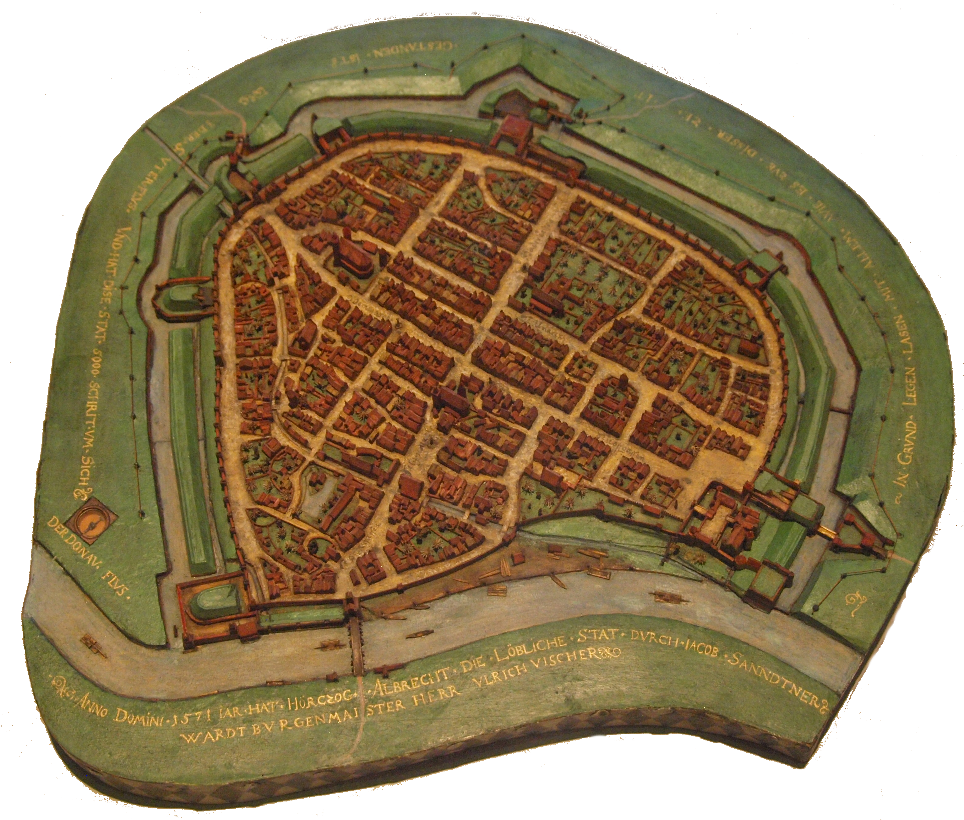 Jakob Sandtner - Small cities model of Ingolstadt from1571.